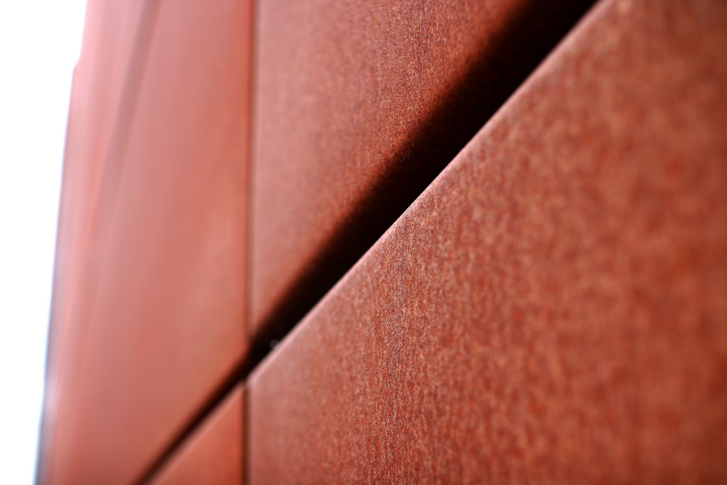 COR-TEN steel